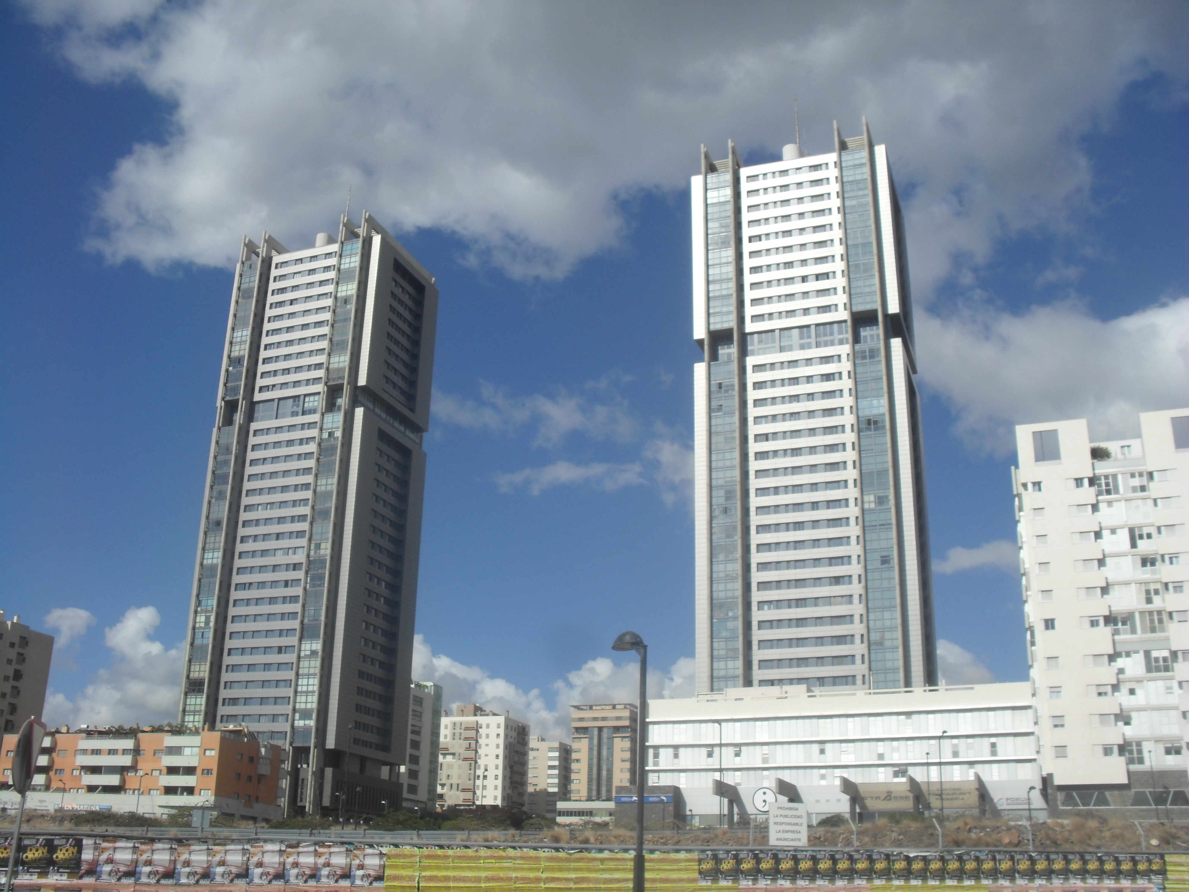 Torres Gemelas de Santa Cruz de Tenerife.